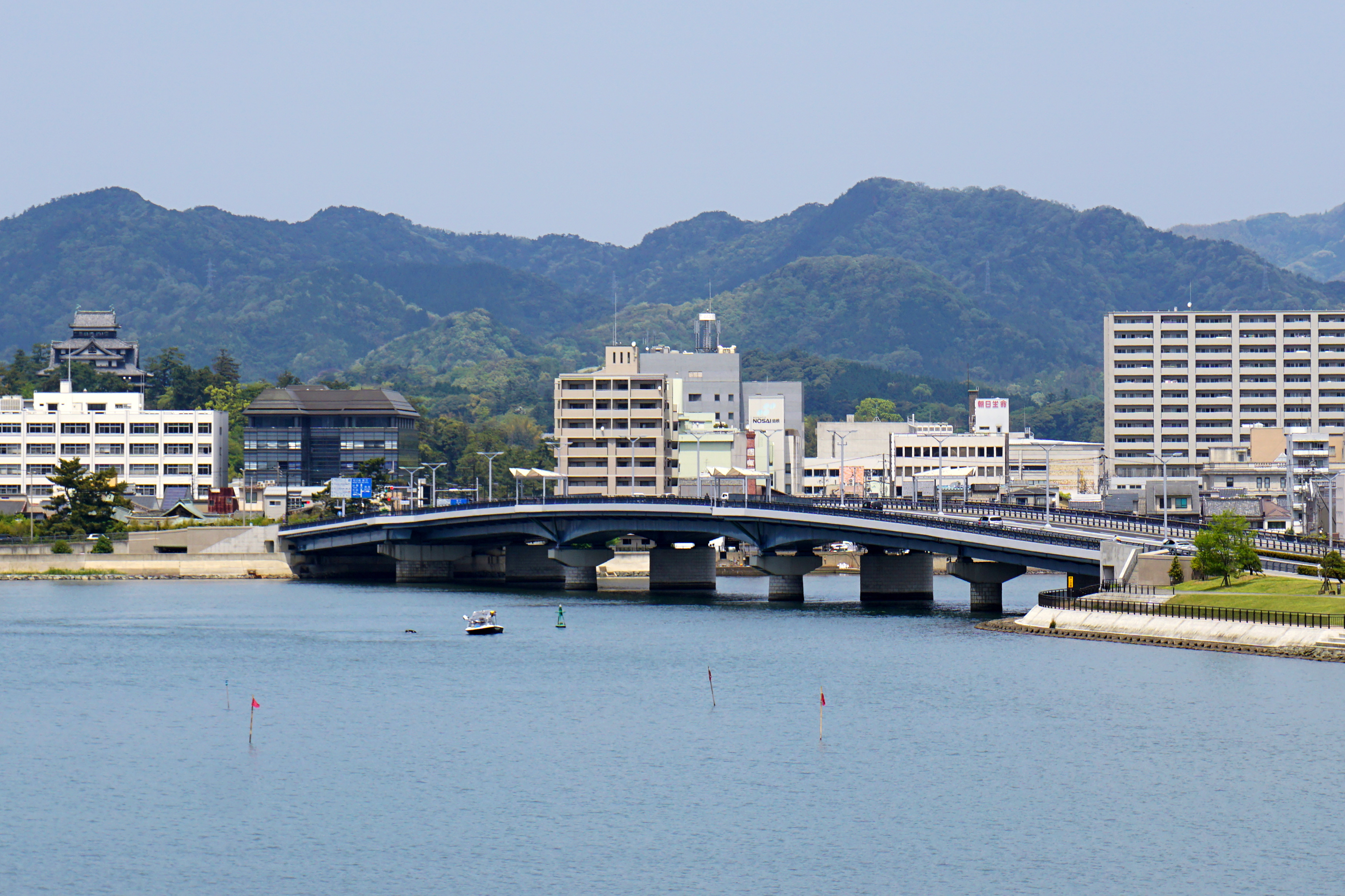 Shinjiko Ohashi Blidge view from Shimane Art Museum in Matsue, Shimane prefecture, Japan